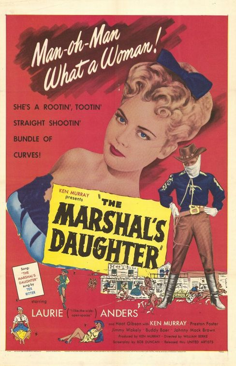 Poster for the 1953 film The Marshal's Daughter. A search was done at for this title. There were no listings for The Marshal's Daughter. There's no evidence that copyright continues to be claimed on the film or any items pertaining to it.